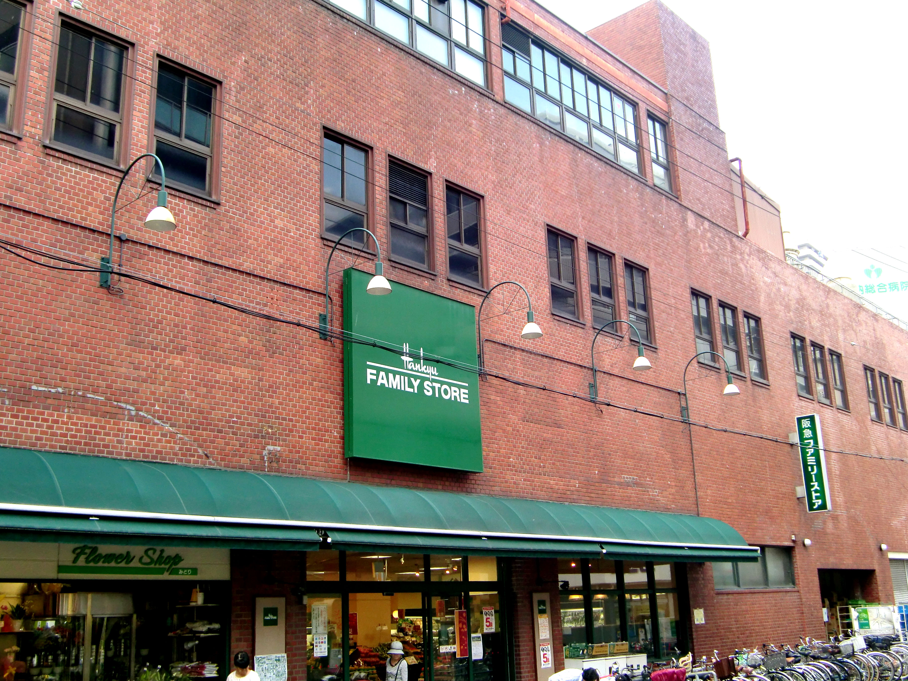 Hankyu FAMILY STORE Tenroku,7-1-10 Tenjinbashi Kita-Ku Osaka-City Osaka Japan.